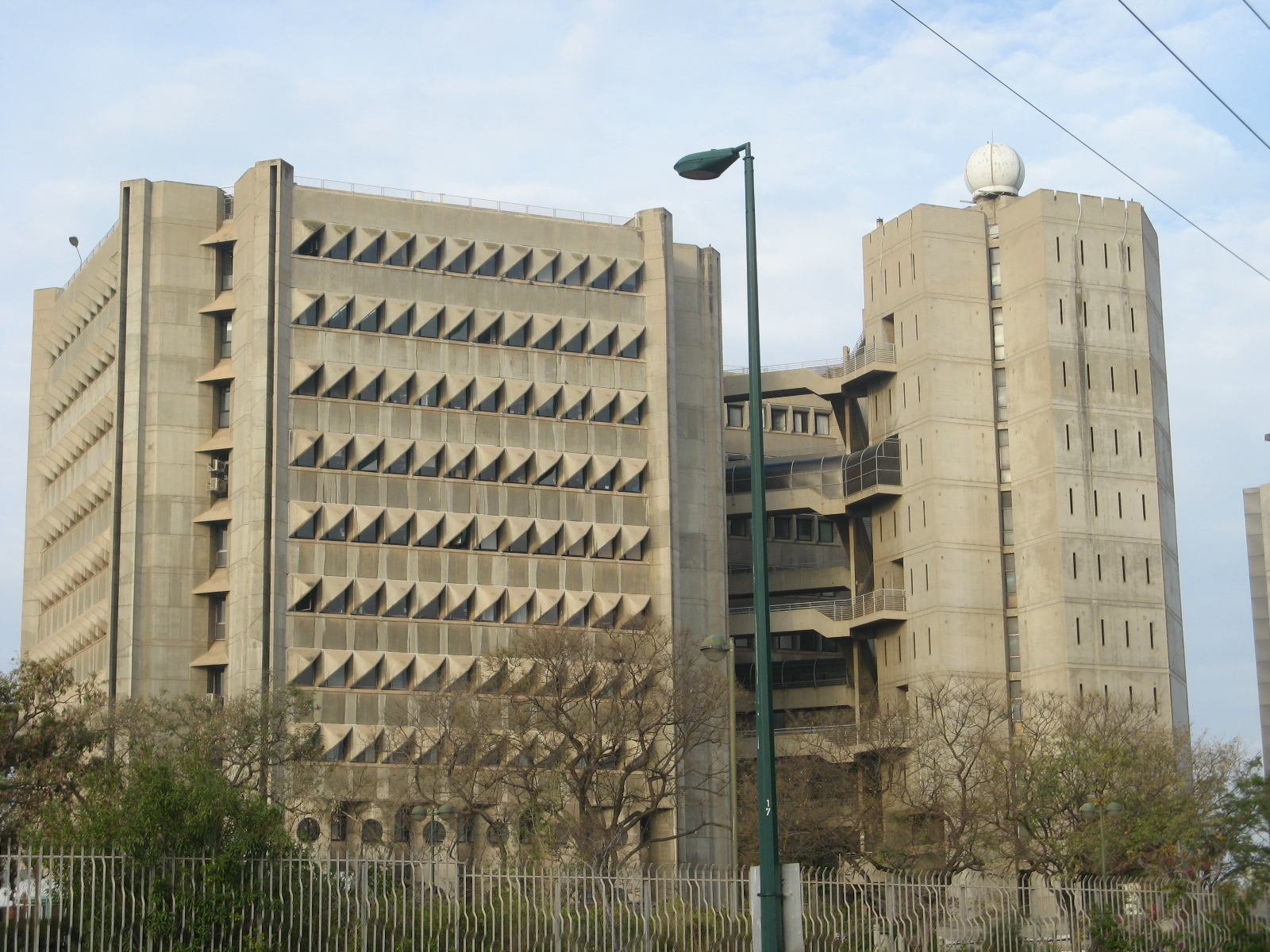 בניין של אוניברסיטת תא